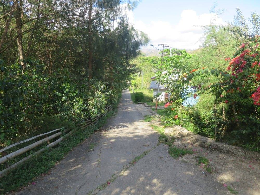 Close to the church of Aileu